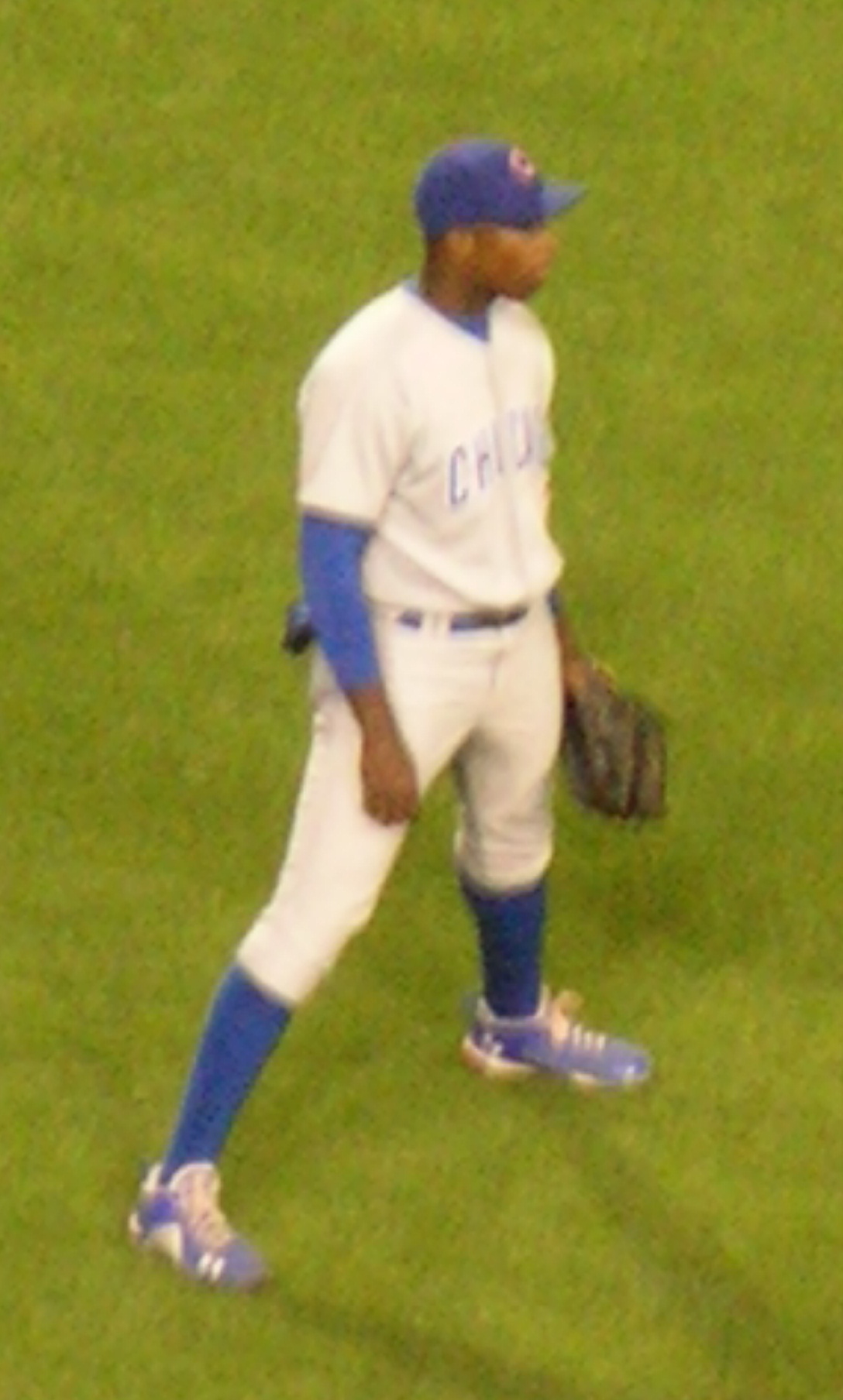 Chicago Cubs outfielder Alfonso Soriano at an away game against the San Francisco Giants. The Cubs won 8-6.